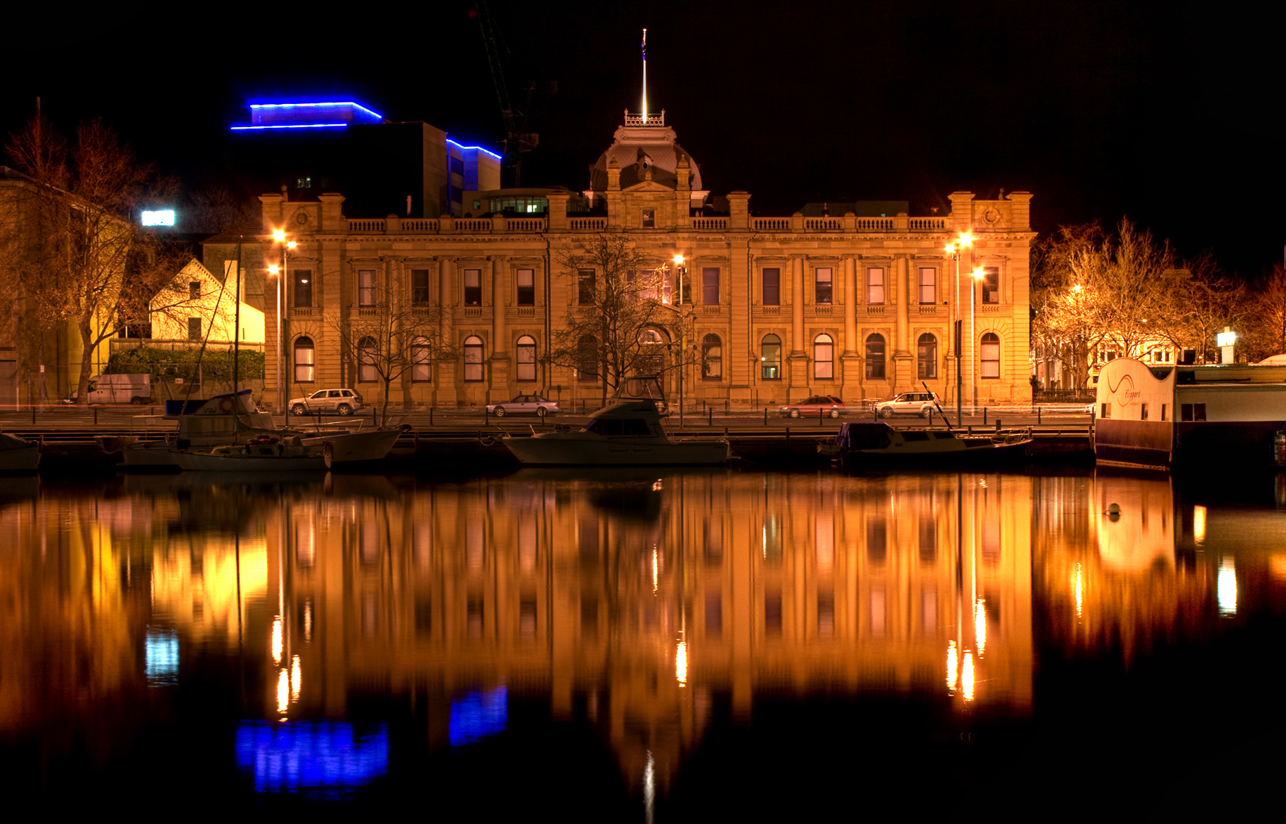 Old Customs House in Tasmania on Davey St. Now serves as office space for the Tasmanian Museum and Art Gallery.